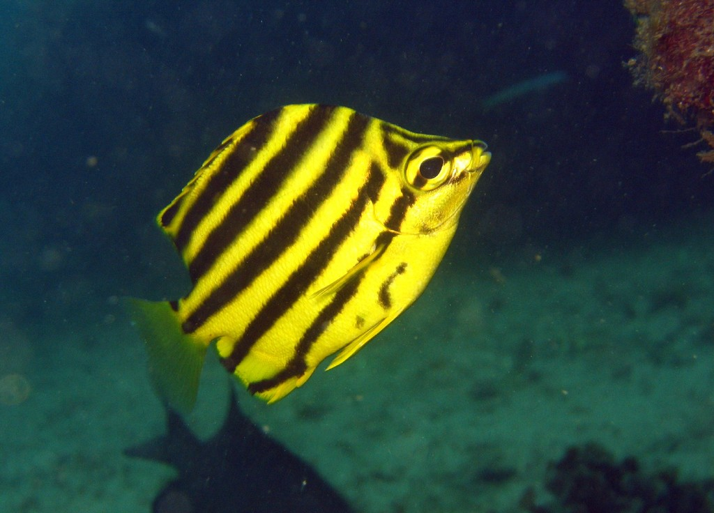 A juvenile Stripey (Microcanthus strigatus). Fairy Bower, Manly, NSW